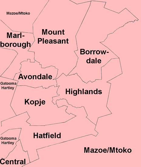 European-roll constituencies in Salisbury, Zimbabwe Rhodesia and Zimbabwe. Used at the 1979 and 1980 elections.